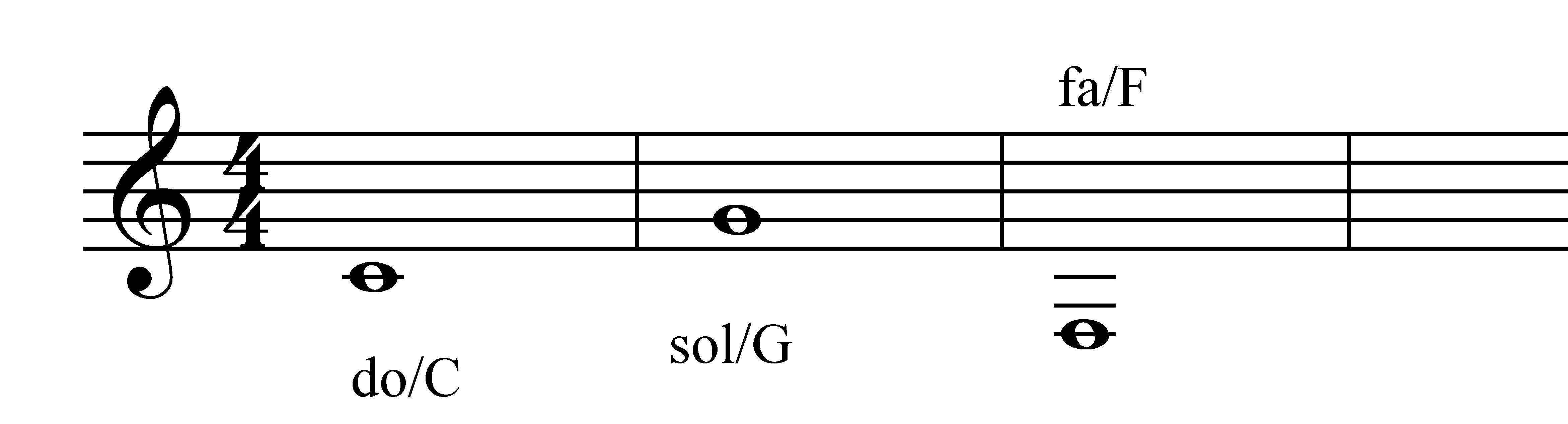 Treble clef or G clef. Made with Finale 2005 software.